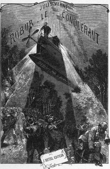 An illustration from Jules Verne's novel "Robur the Conqueror" drawn by Léon Benett.